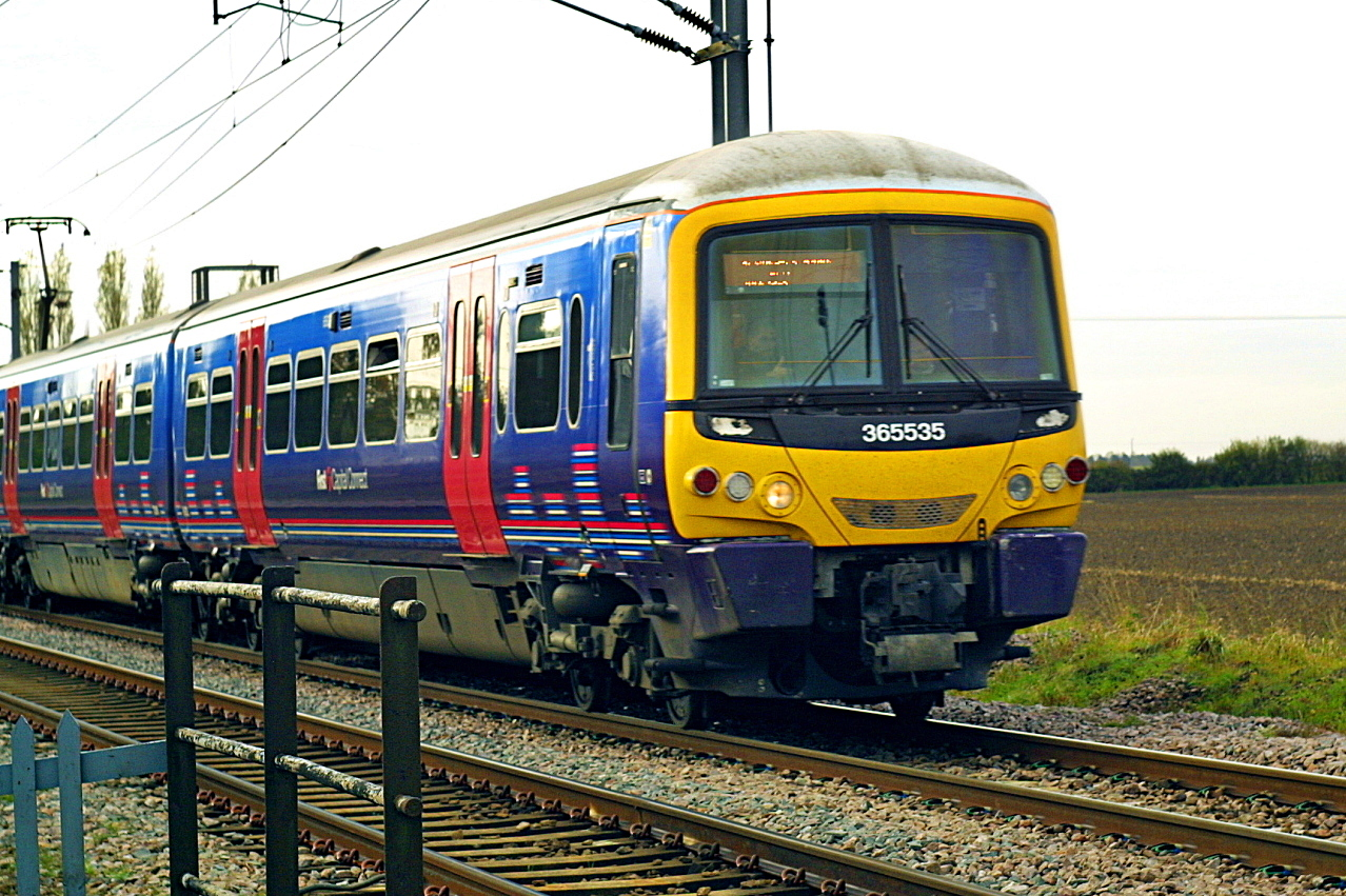 British Rail Class 365 365535 approaches the level crossing at Watlington, a few hundred yards north of Watlington railway station.